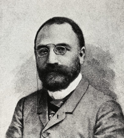 Anastasios Vyzantios (1839-1892): Greek journalist and poet, illustration from Imerologion Skokou 1900